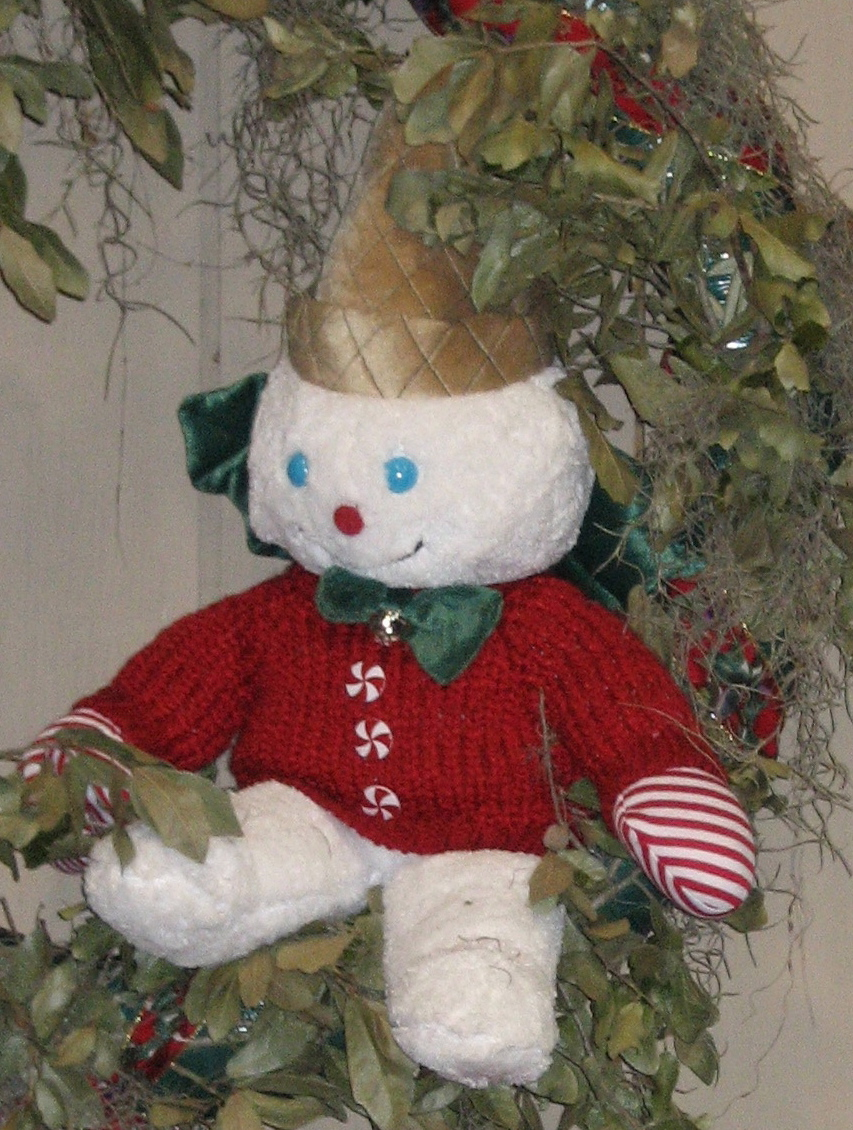 "Mister Bingle" plush doll. "Mister Bingle", a living snow-man who helped Santa Claus, originated as a character for children's Chistmas puppet shows at the defunct "Maison Blanche" department store of New Orleans. Photo by Infrogmation of New Orleans.